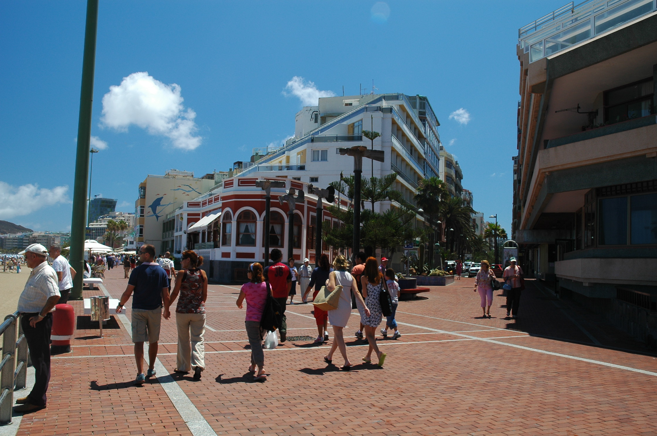 Avenue. Las Canteras Beach, Las Palmas de Gran Canaria. Canary Islands, Spain.